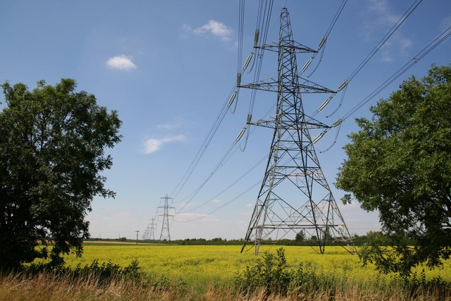 Pylons near Heckington. view from the B1394